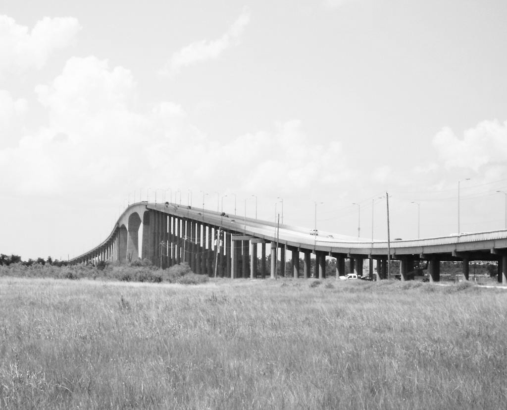 The Sam Houston Ship Channel Bridge